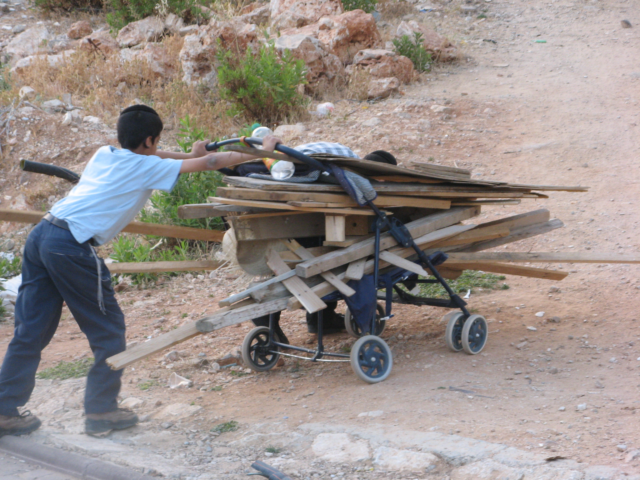 Children collecting wood for the Lag Bomer Bomfire